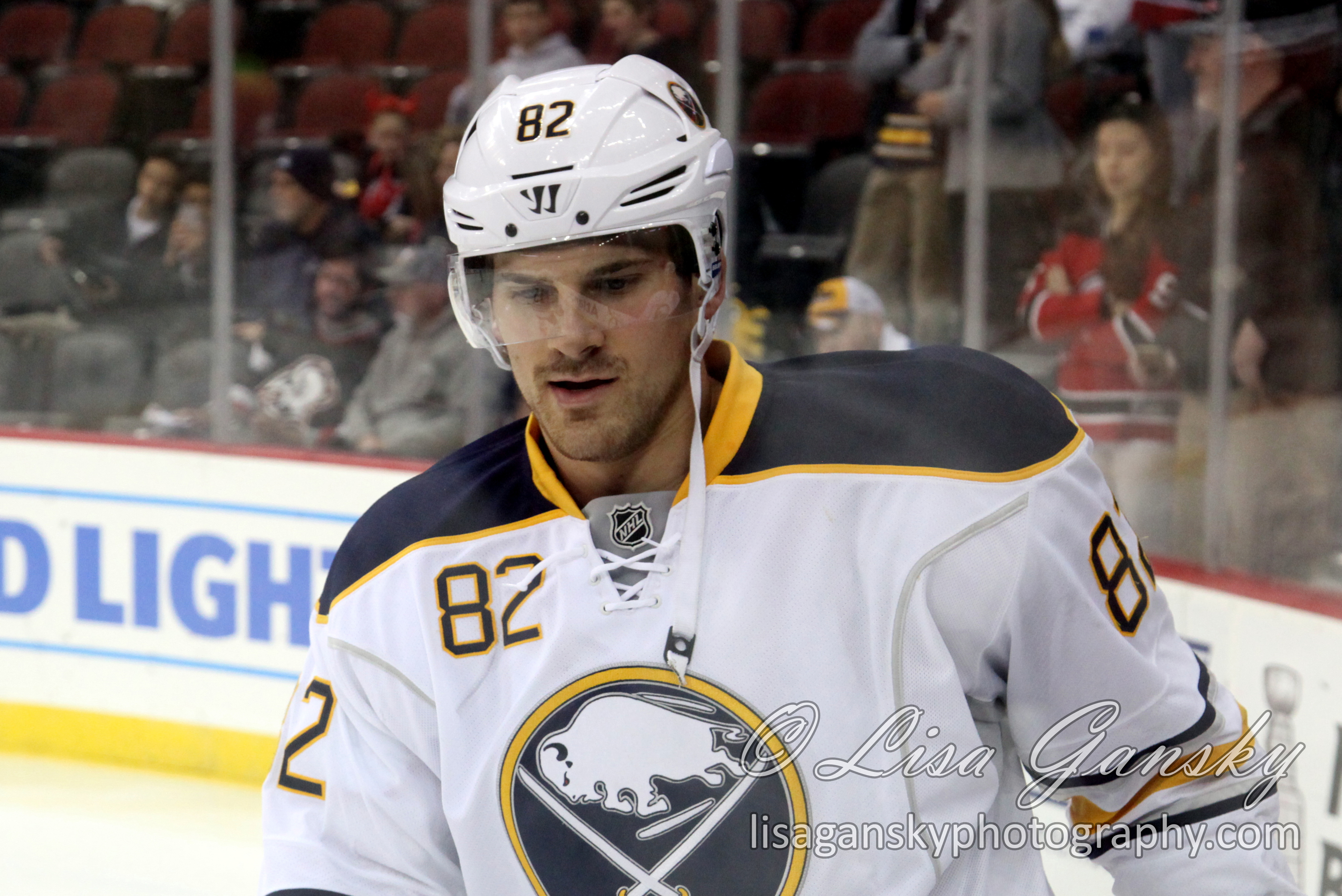 Marcus Foligno in April 2016